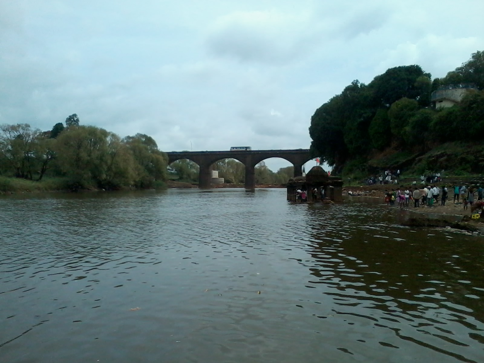 पंचगंगा घाट परिसर